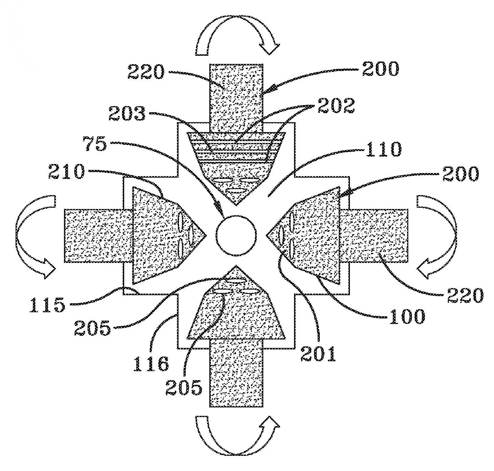 Drawing from U.S. patent US20190295733A1